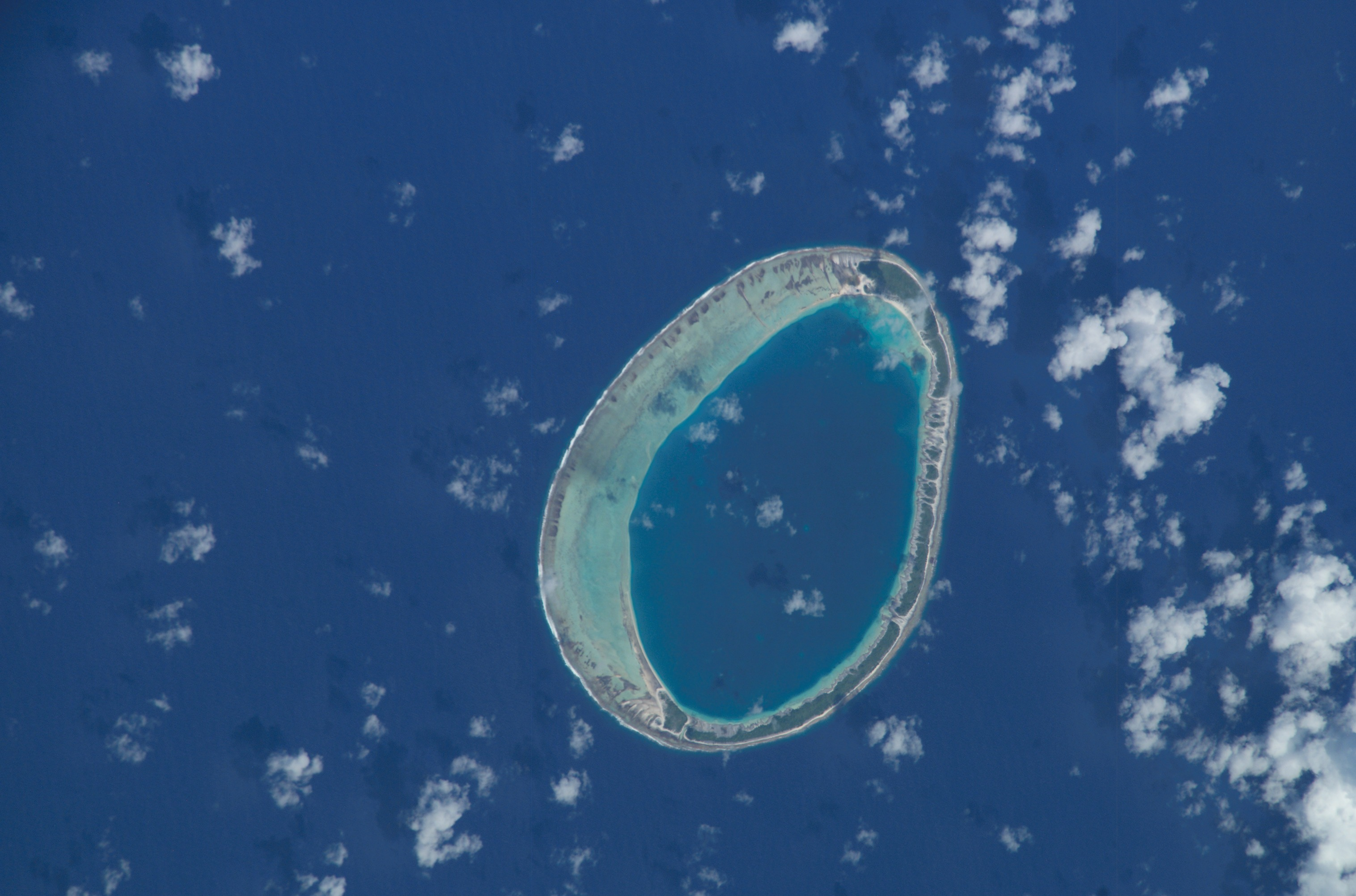 An image from the International Space Station of the Hiti Atoll in the Tuamotu Archipelago, French Polynesia.